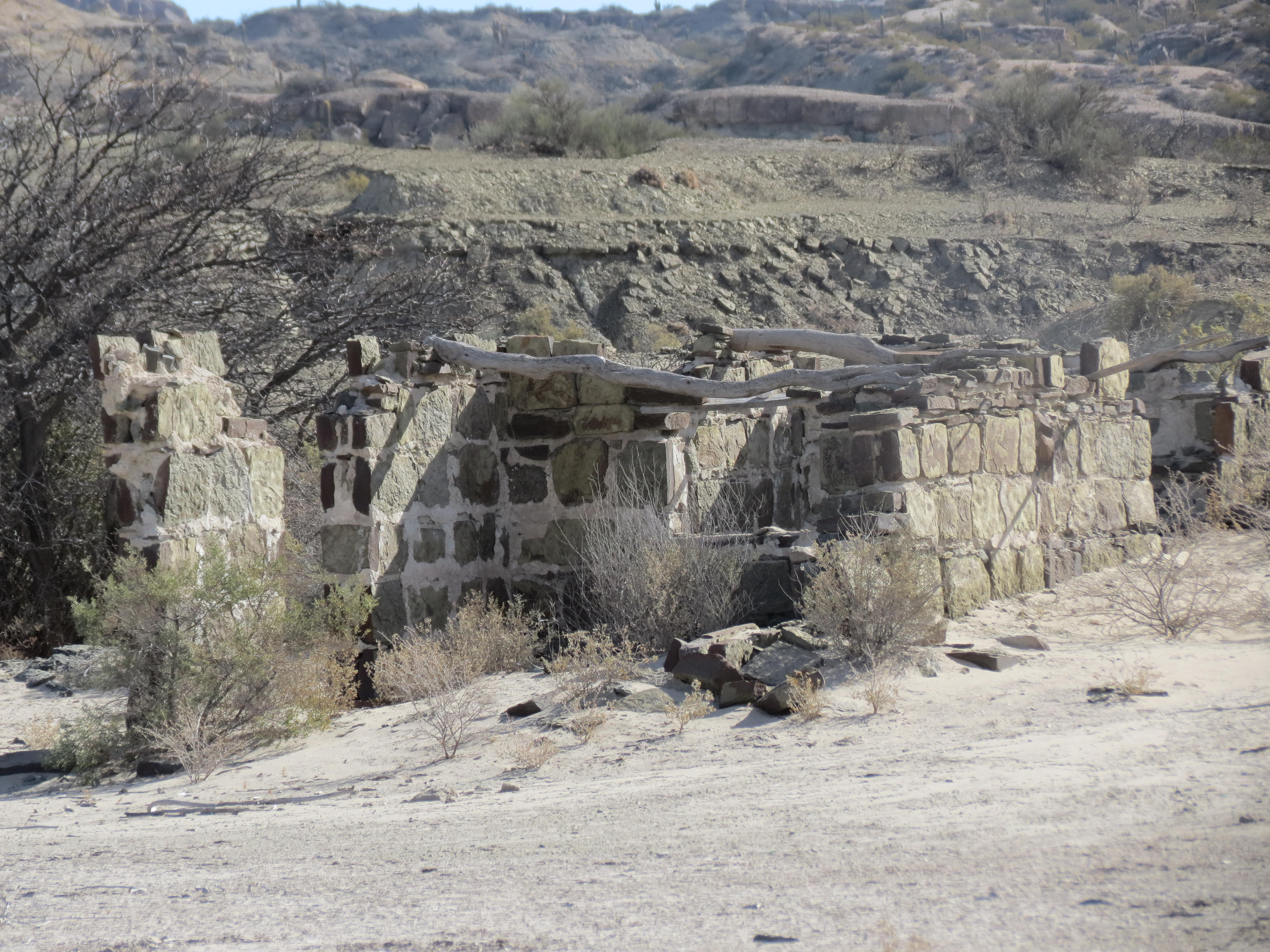 Foto de las ruinas de construcciones mineras en Ischigualasto